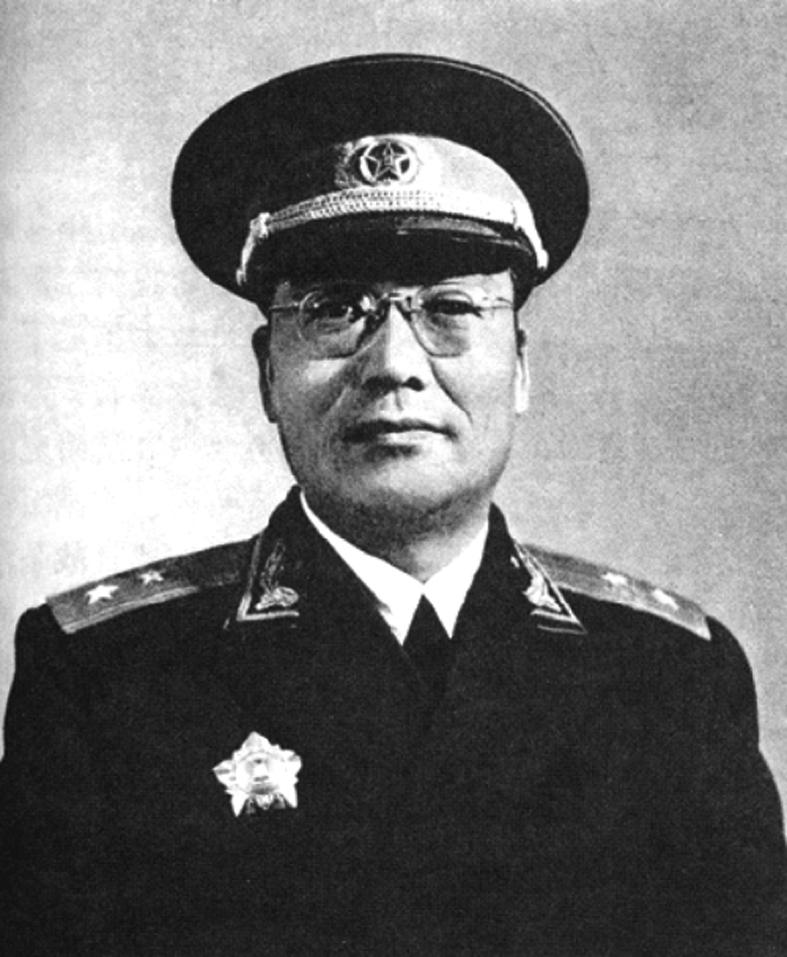 Han Liancheng